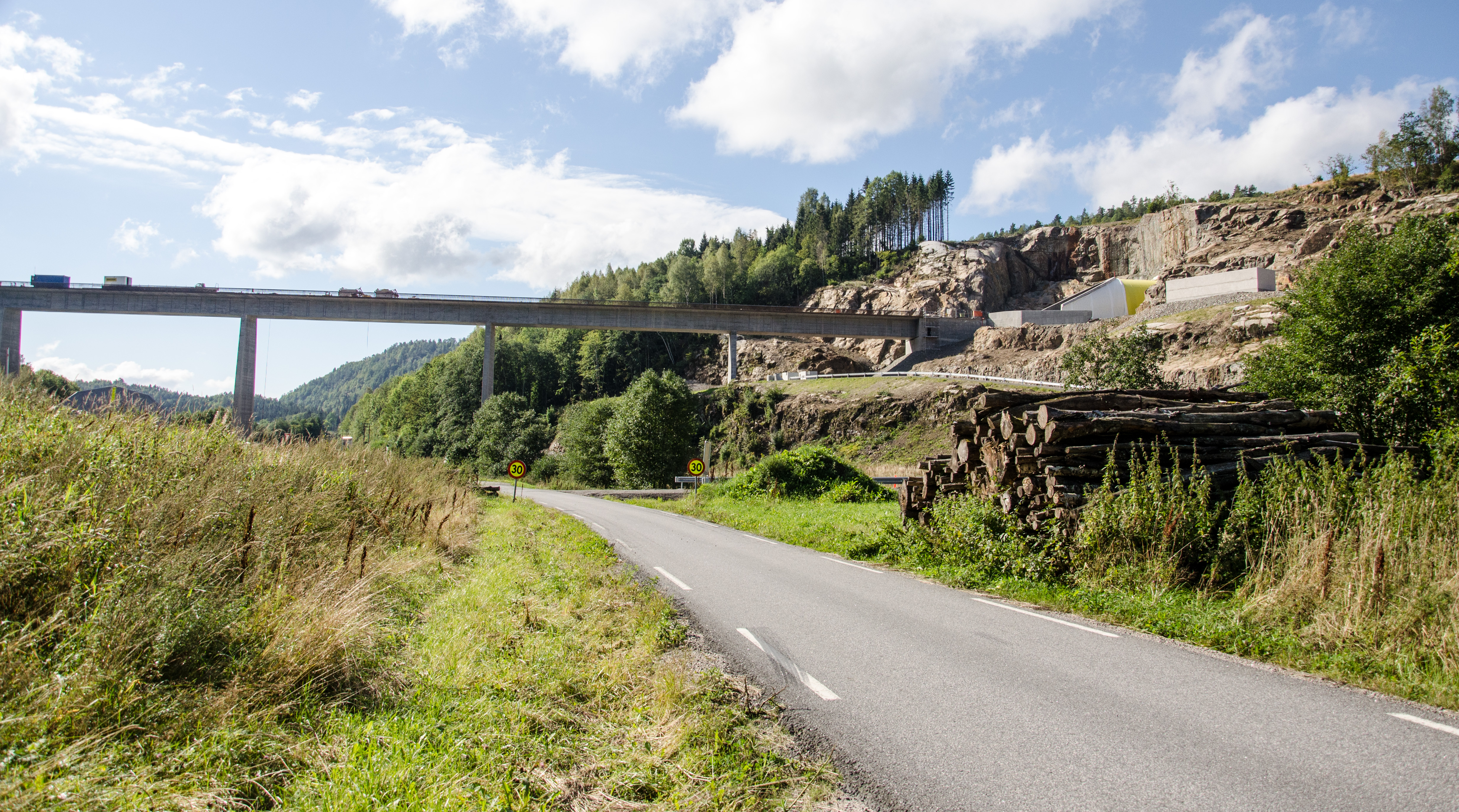 Ønna railway bridge over county road 1 Markavegen, Storberget railway tunnel to the right.